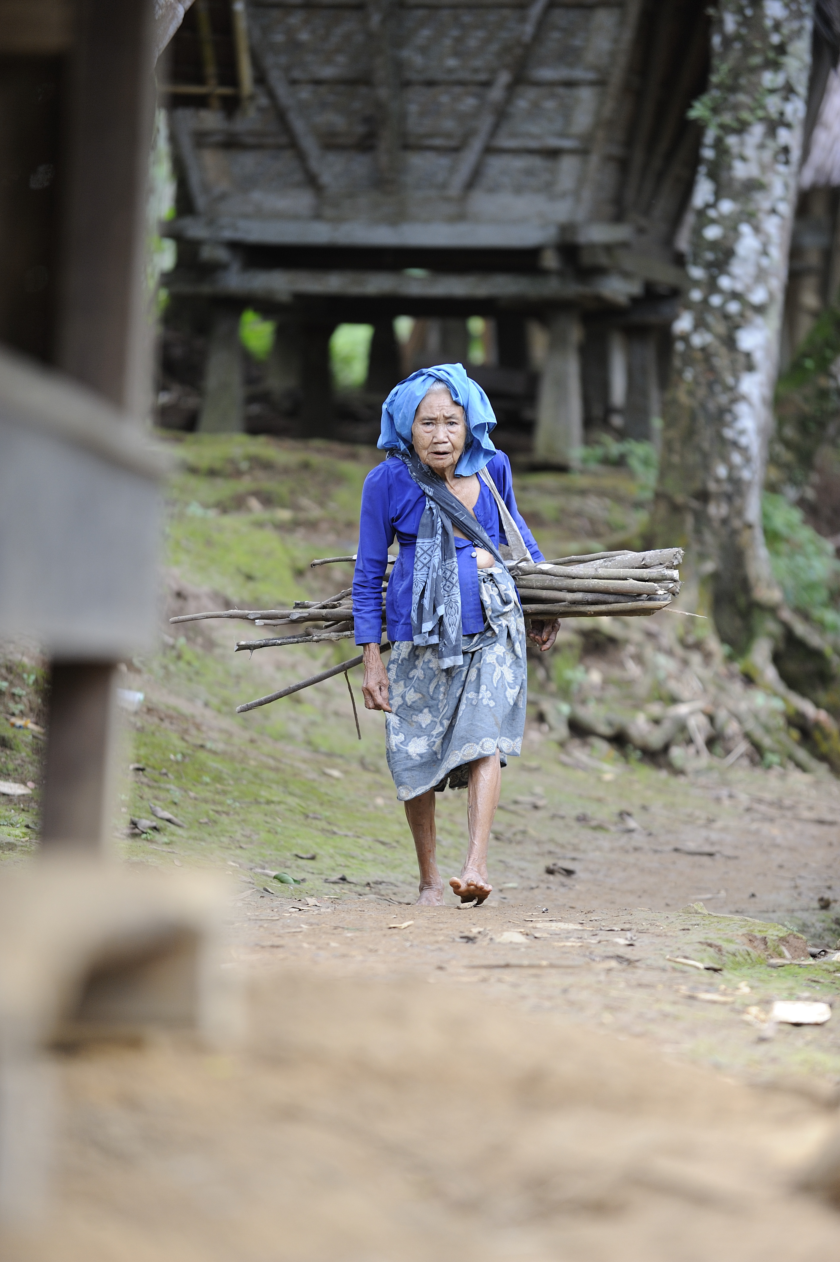 The Baduy (or Badui), who call themselves Kanekes, is a sub-ethnic of Sundanese indigenous people in the region Lebak, Banten.